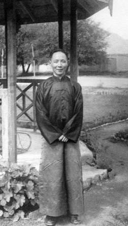 Liu Shengqi